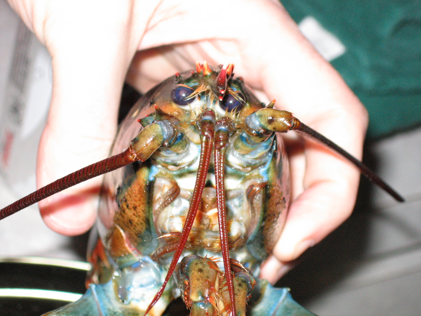 Close up of head of live lobster shipped for consumption in the United States.